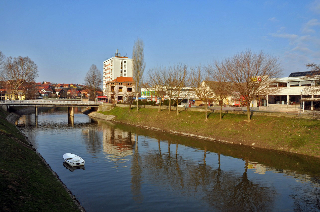 Vuka river, Vukovar.